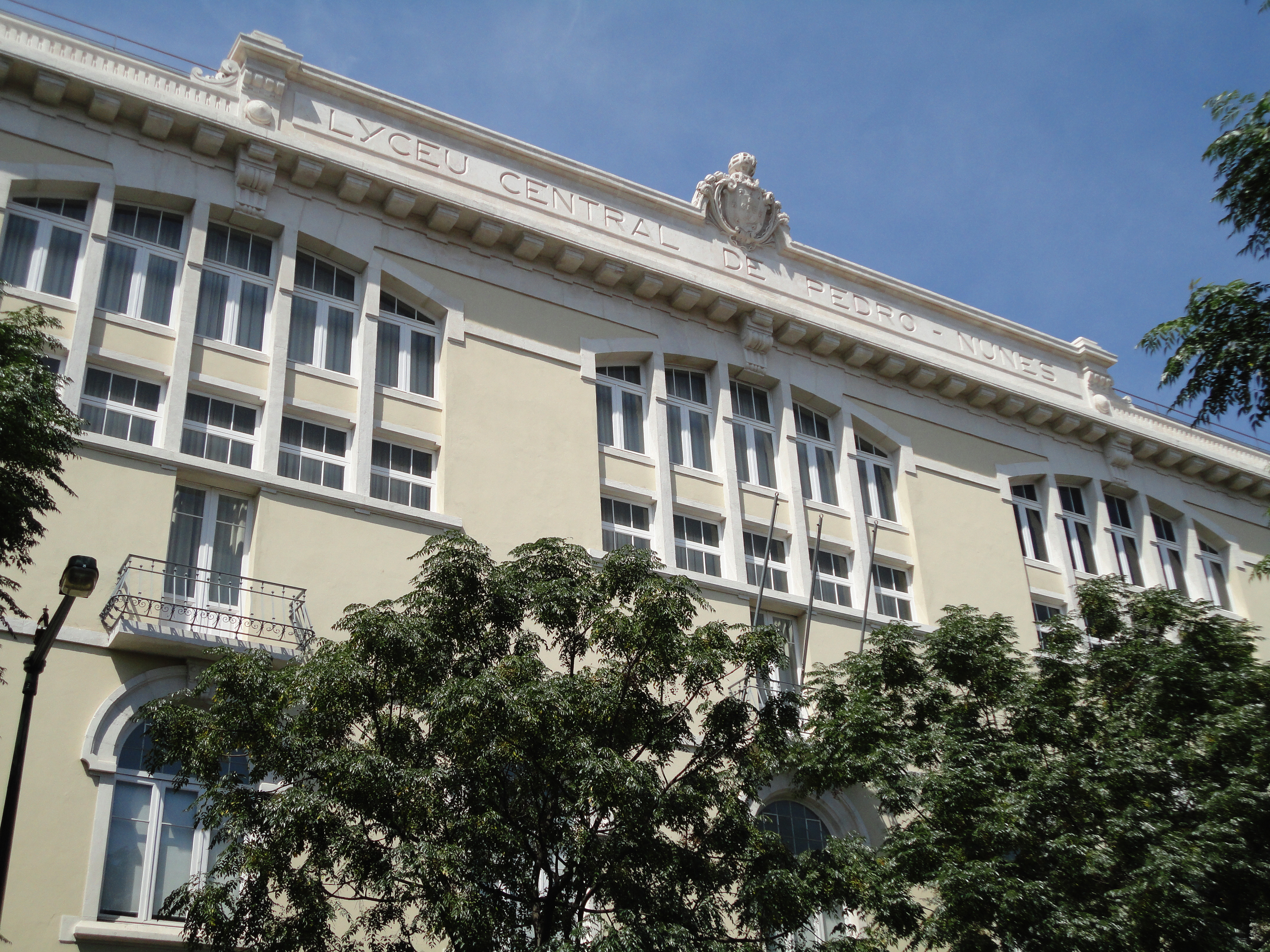 Pedro Nunes Secondary School, Lisbon, 2012